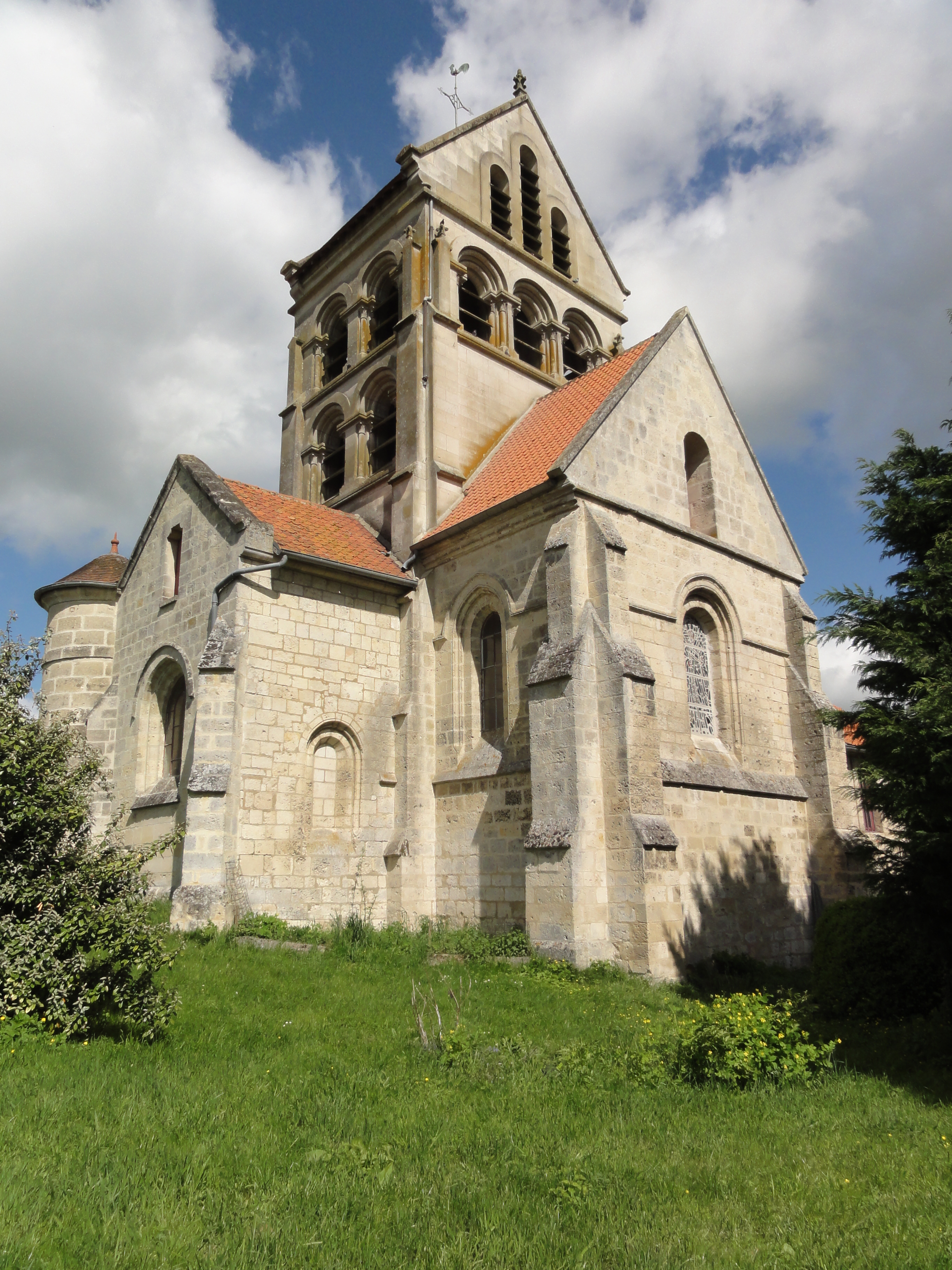 Suzy (Aisne) église